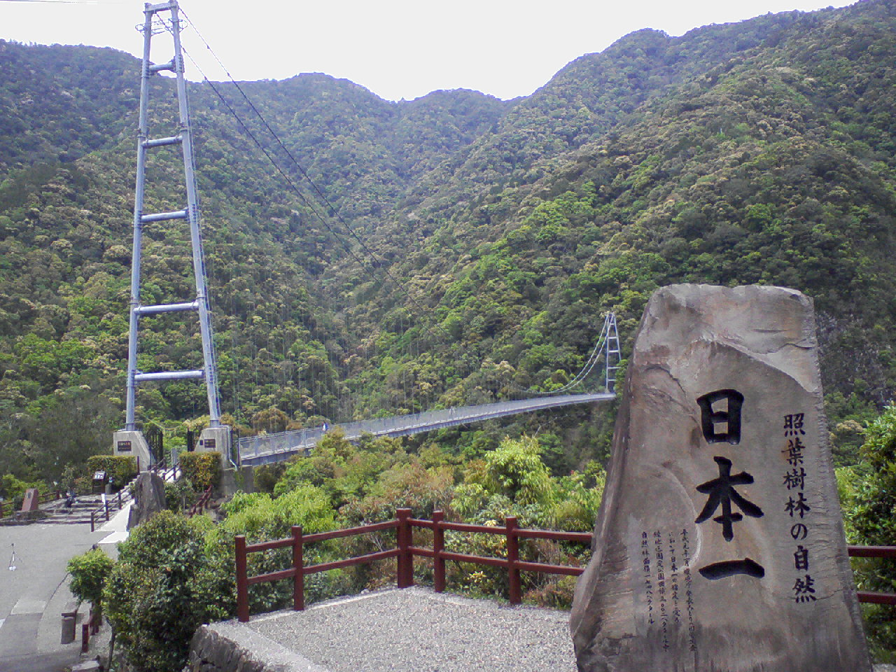 Aya Teruha Suspension Bridge, Aya Town, Miyazaki, Japan